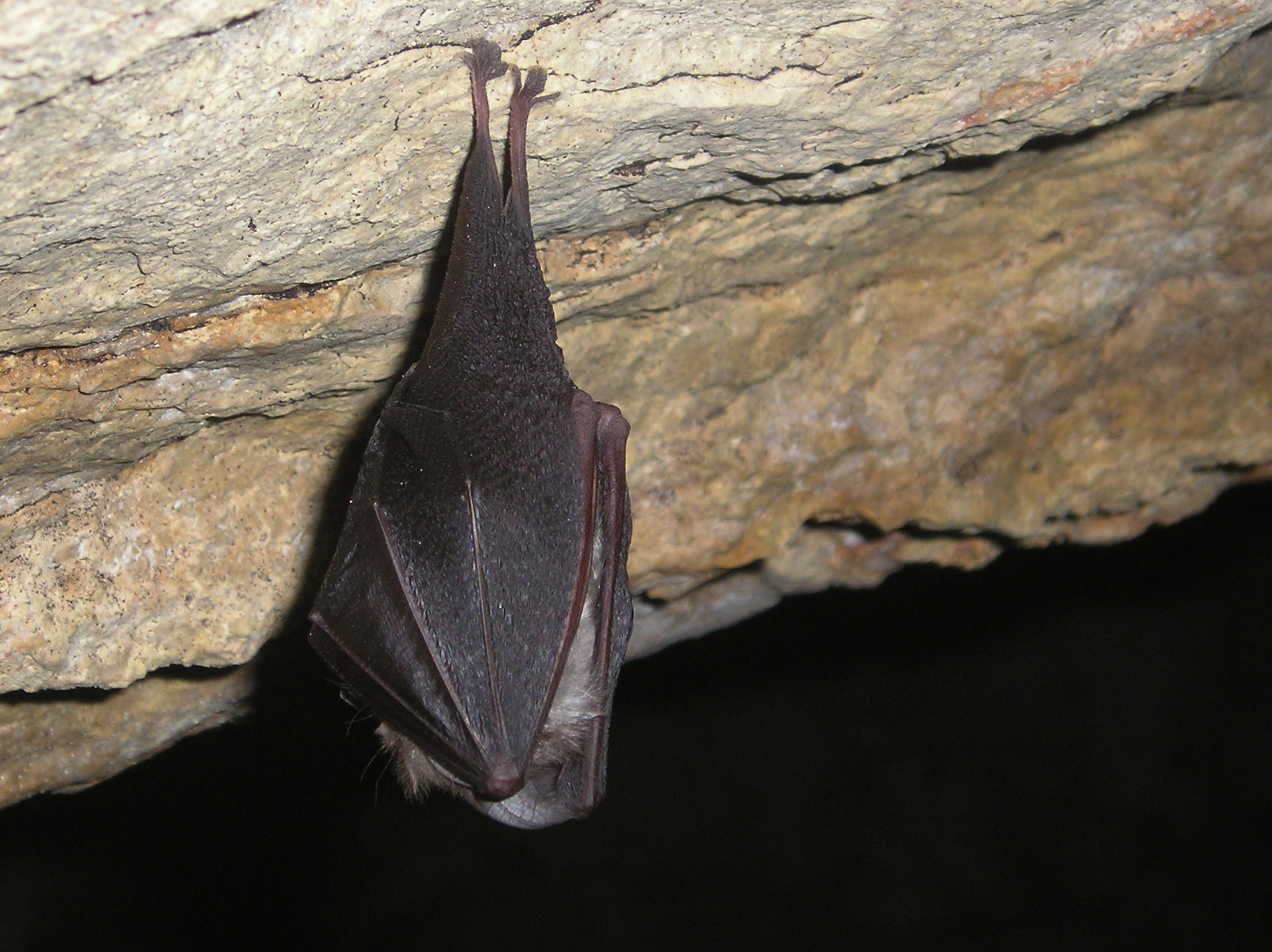 Rhinolophus hipposideros (Lesser horseshoe bat) in cave during winter (Salles-la-Source, Aveyron, France).